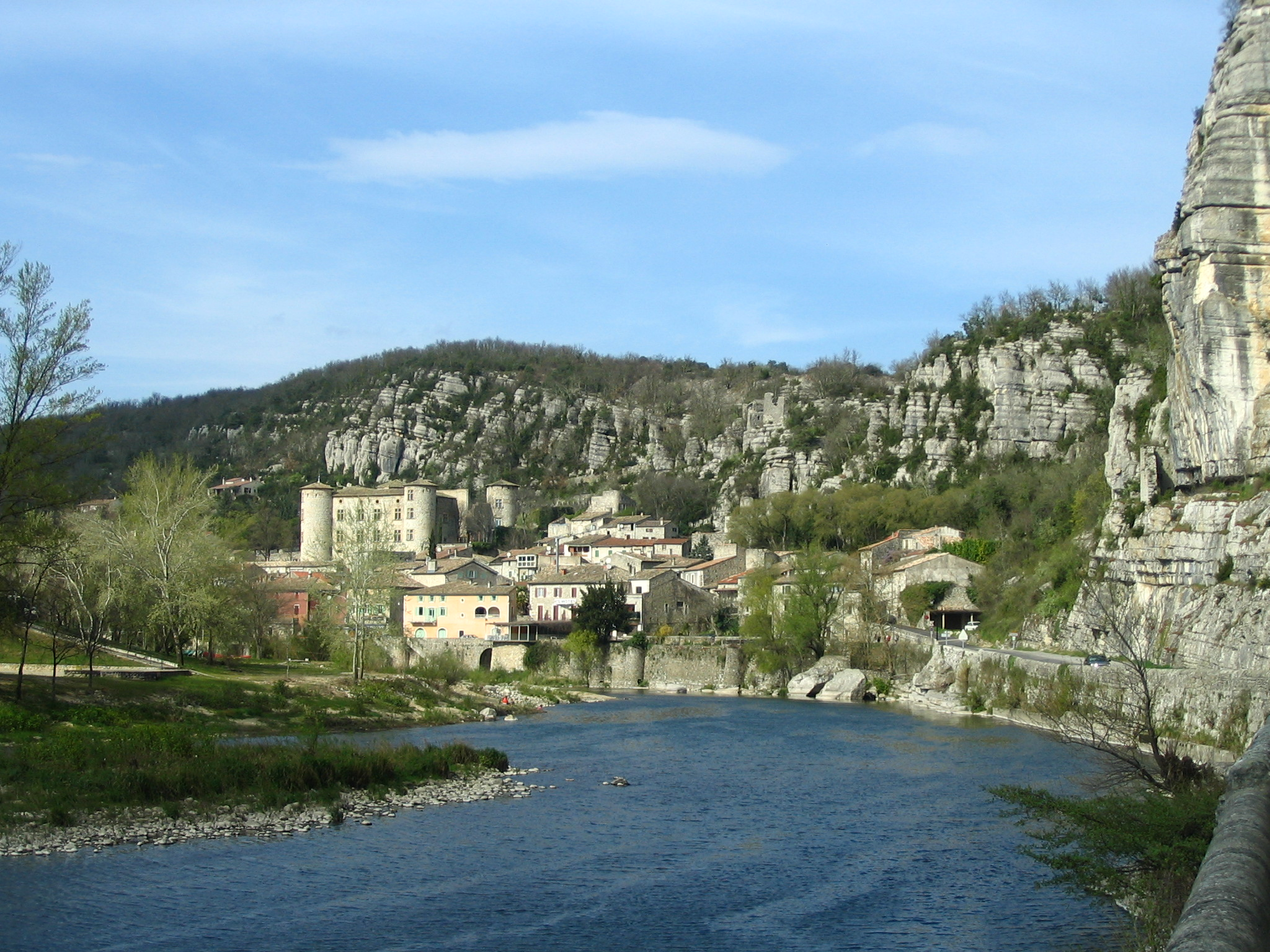 historical village of Vogue in the Ardèche region in France